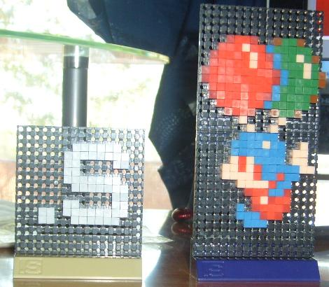 An image of the toy 'Dot-S.'